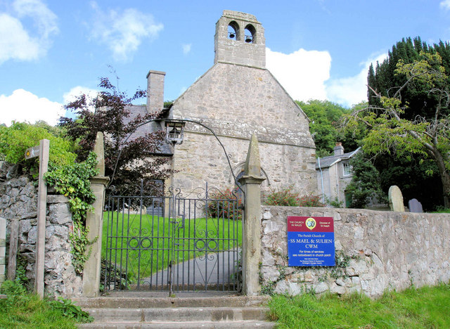 Church of SS Mael and Sulien, Cwm, near to Cwm, Denbighshire/Sir Ddinbych, Great Britain. Cwm, church of SS Mael and Sulien on the Clwydian Way. An unusual dedication - to two 6th century Celtic saints and companions of the Breton St Cadfan, a missionary to west Wales.